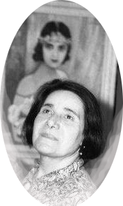 First Bulgarian academically trained in Vienna ballerina b.1899